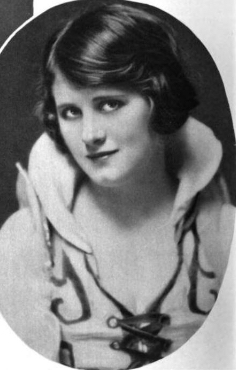 Alta King, a young white woman, with a dimpled chin; she is wearing a light-colored costume with criss-cross lacing across the bodice.